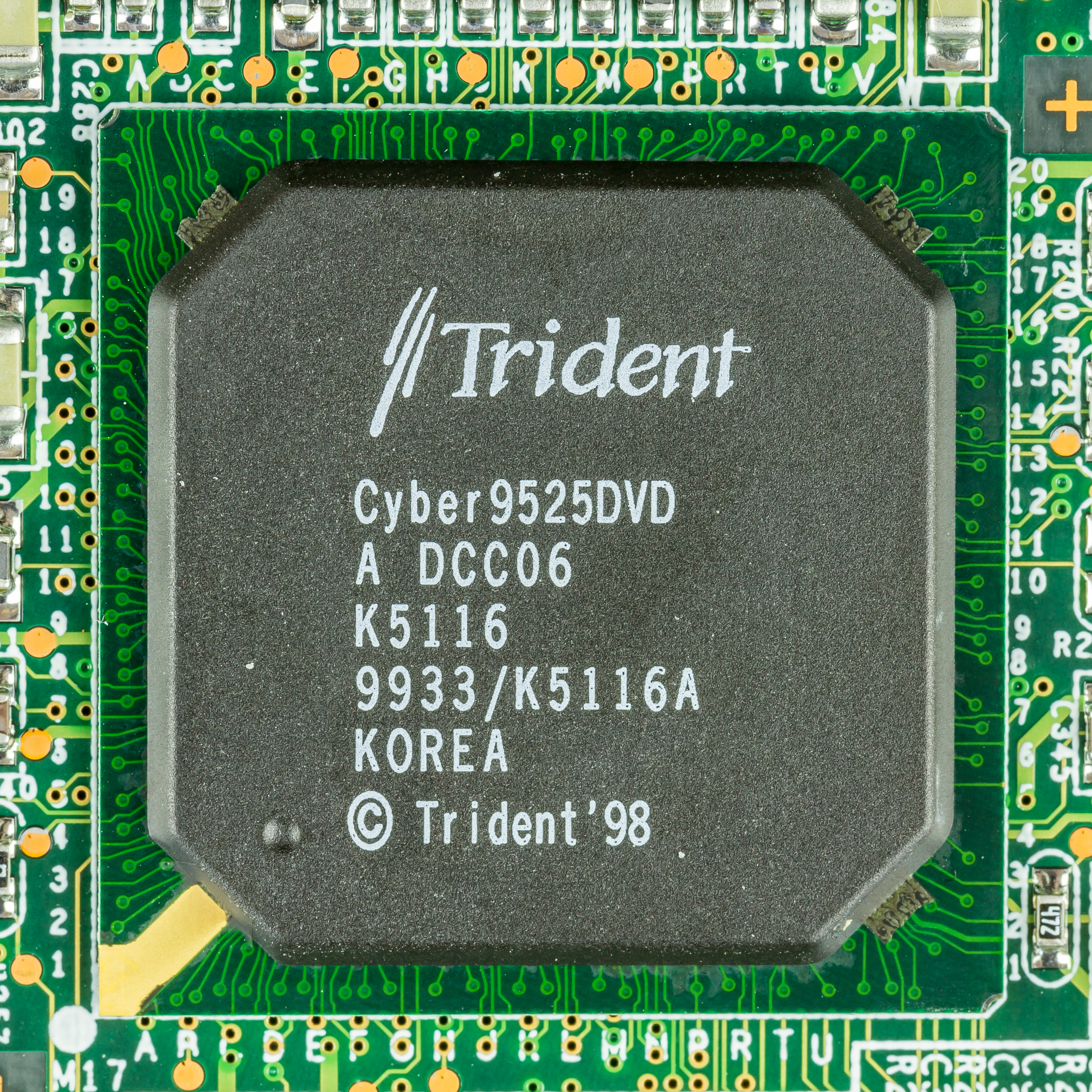 Lifetec LT9303 - Motherboard - Trident Cyber9525DVD - Graphics chipset